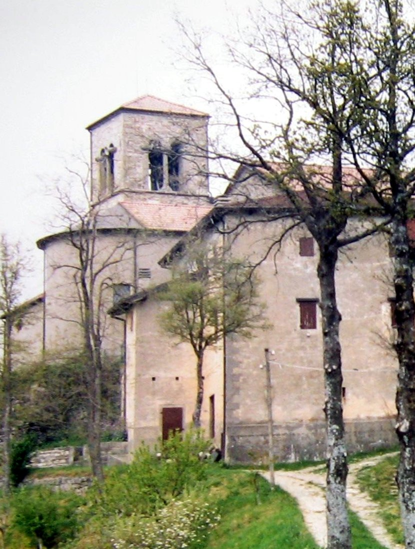 Romanoro presbytery and saint benedict church side view